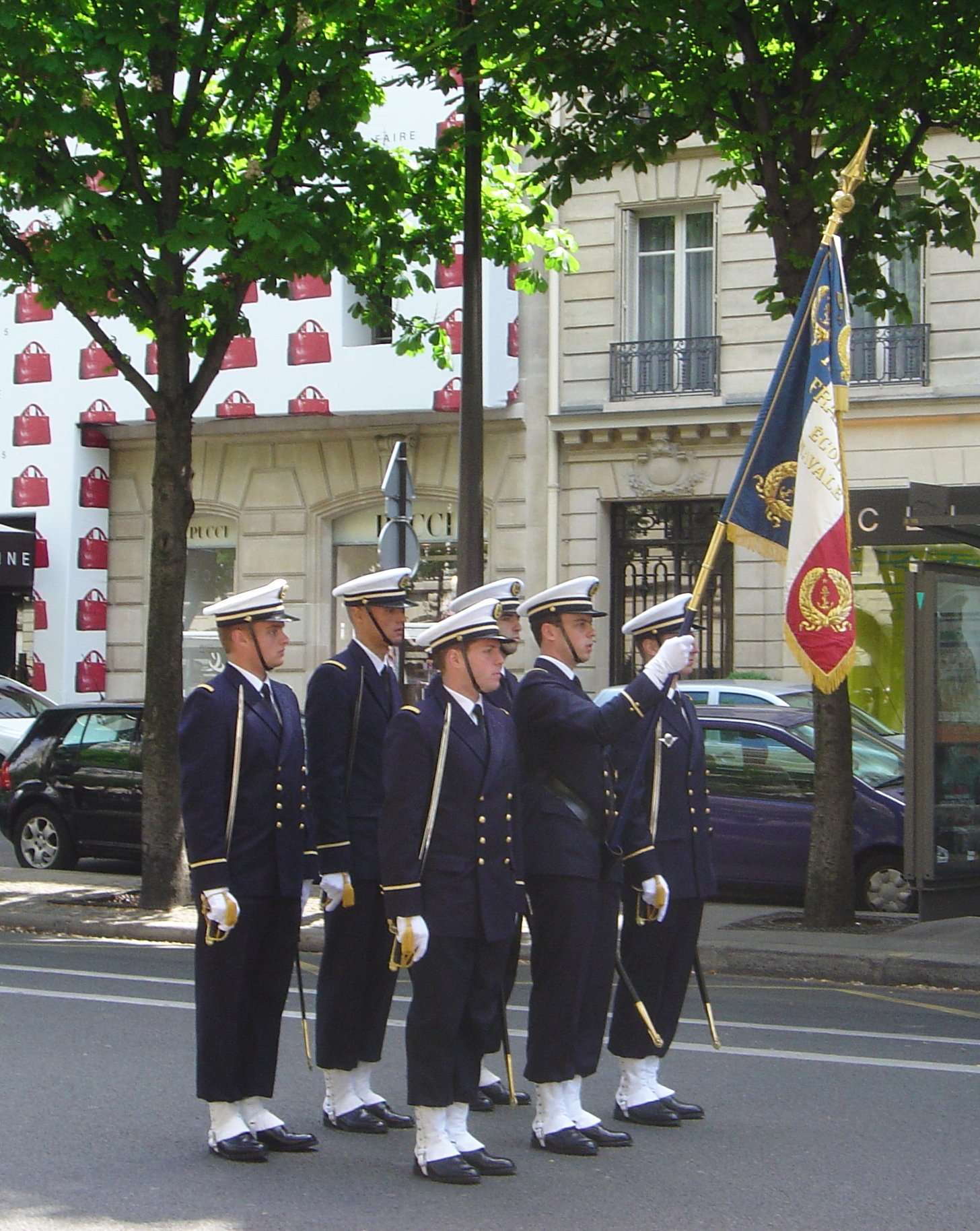 Flag guard of the French Naval Academy, ceremonies of May 8, 2005 on the Champs-Élysées in Paris, France